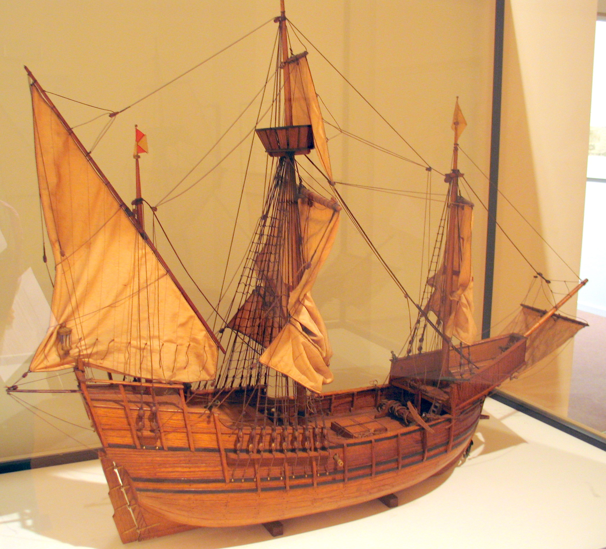 The Santa Maria, maquette of Christopher Columbus' ship at the Mercatormuseum in Sint-Niklaas, Belgium - own work by Paul Hermans